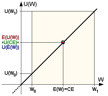 Utility function of a risk-neutral person: CE - Certainty equivalent; E(U(W)) - Expected value of the utility (expected utility) of the uncertain payment; E(W) - Expected value of the uncertain payment; U(CE) - Utility of the certainty equivalent; U(E(W)) - Utility of the expected value of the uncertain payment; U(W0) - Utility of the minimal payment; U(W1) - Utility of the maximal payment; W0 - Minimal payment; W1 - Maximal payment